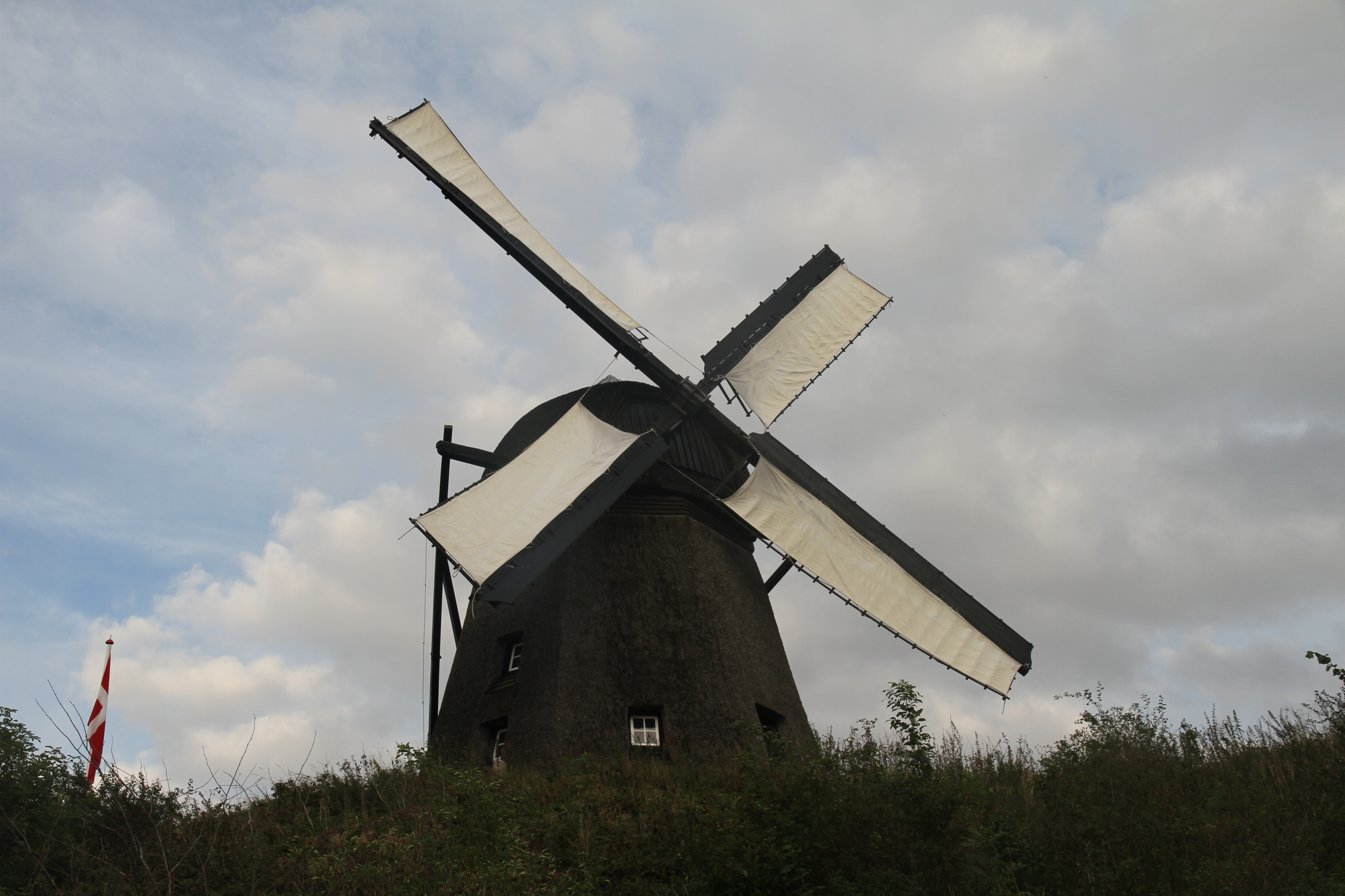 Havnø vindmølle near Hadsund, Visborg Sogn, Hindsted Herred (Ålborg Amt) Denmark. Pictures taken during the tims congress september 2011.